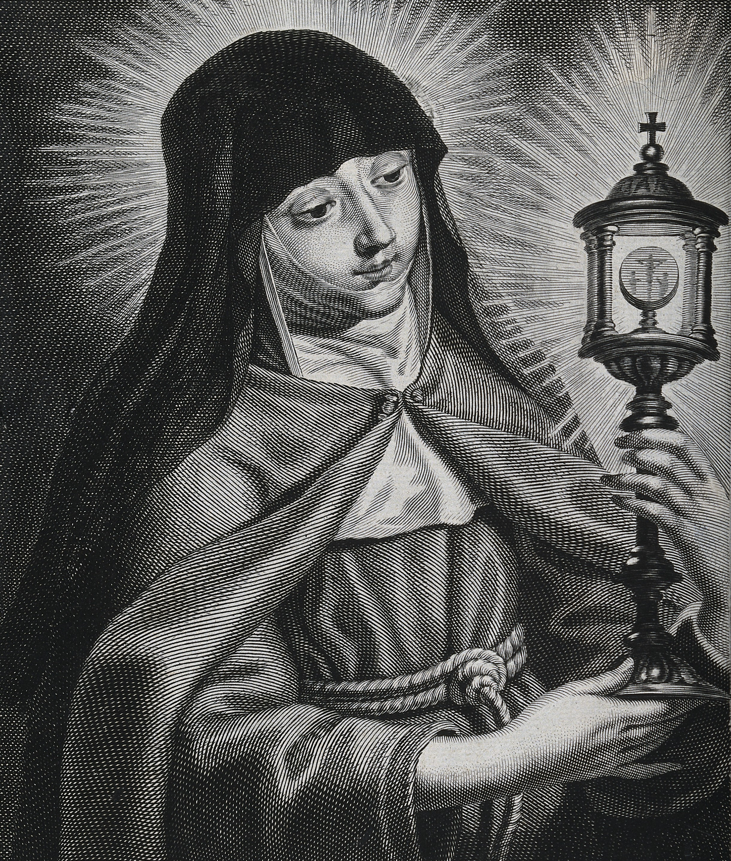 Saint Clare of Assisi. Line engraving by H. Weyen after J. Falck. Iconographic Collections